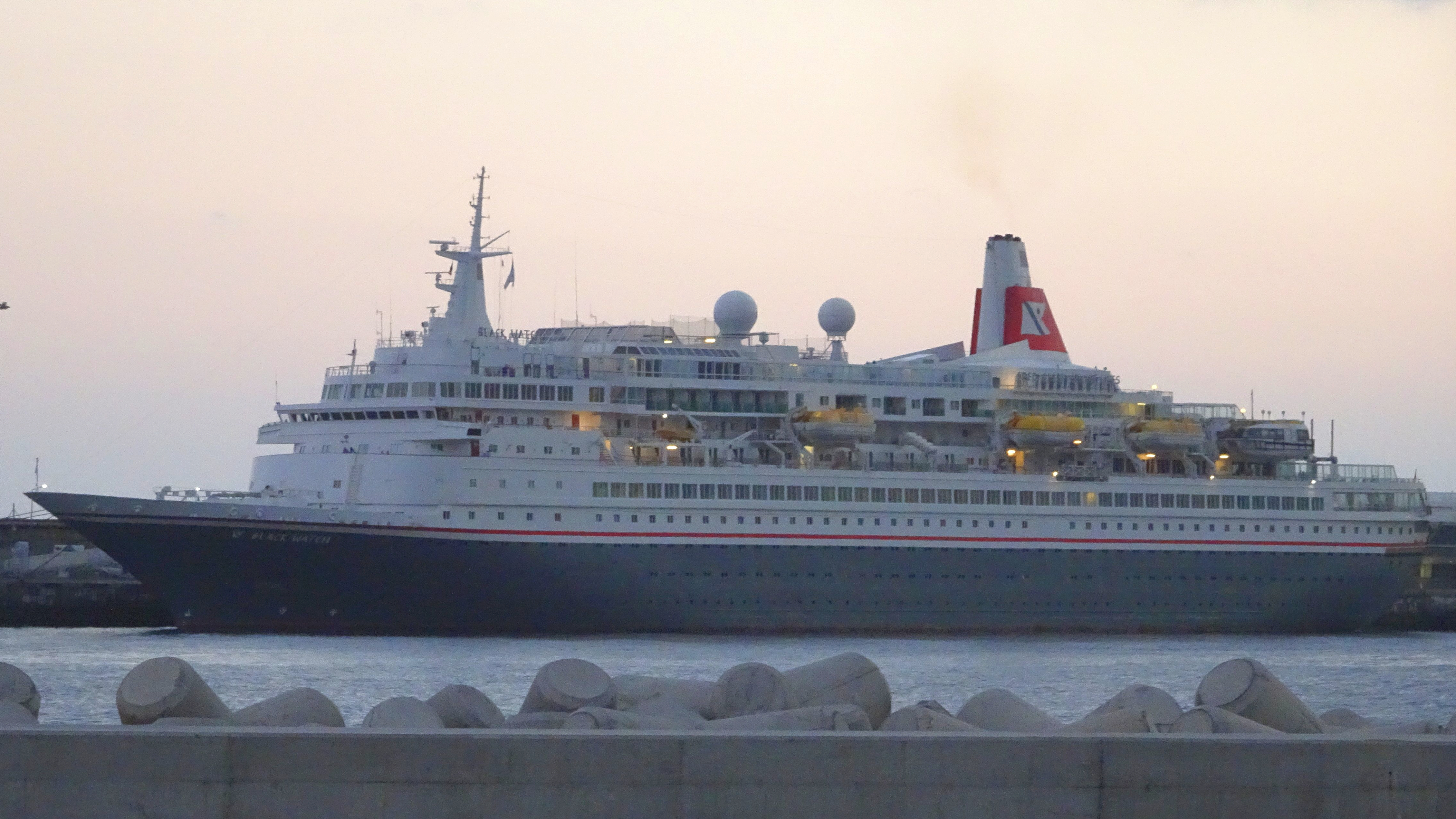 Ocean Liner Black watch in Funchal Harbour, Madeira, one day after a fire broke out and damaged three out of a total of seven Auxiliary Engines.